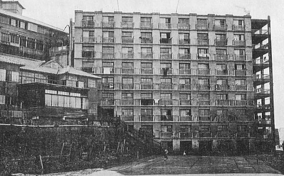 Hashima (Gunkanjima) apartment building circa 1930